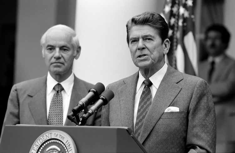 President Reagan with William French Smith making a statement to the press regarding the air traffic controllers strike (PATCO) from the Rose Garden.